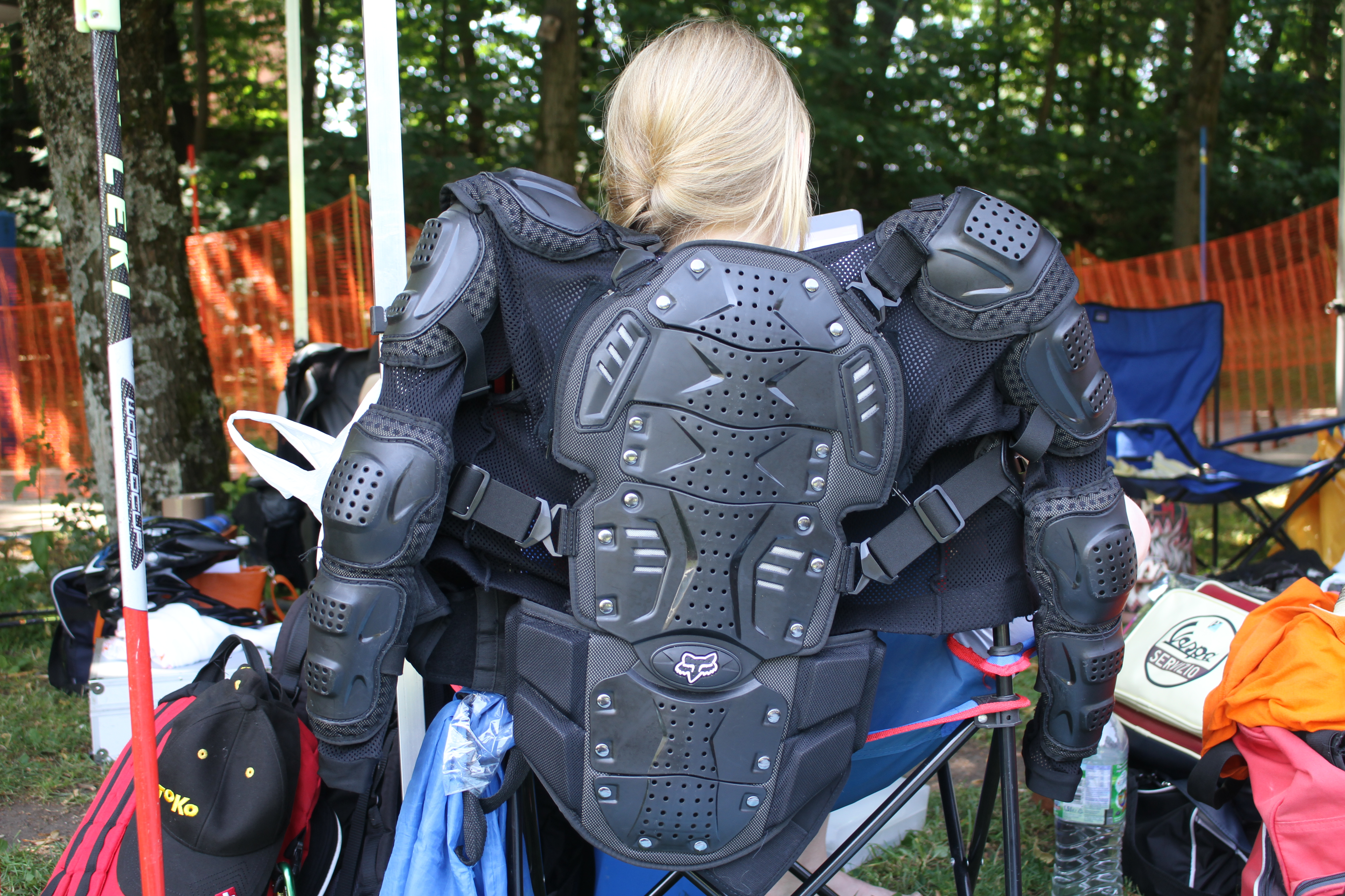 Inline-Alpin - protectors worn by competitors - Internationaler Münchner Inline Cup, Westpark, München.